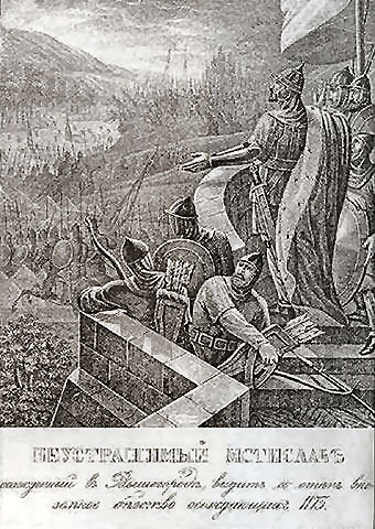 Fearlessness of Mstislav